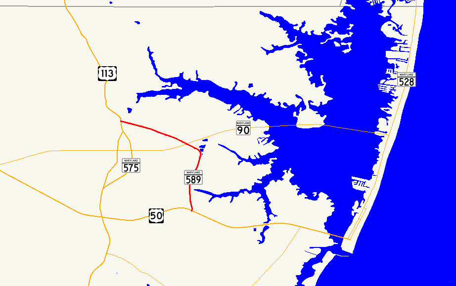 Map of Maryland Route 589